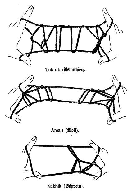 String figure of Inuit (sketch of H. Kluschak). According to Jayne, Caroline Furness (1906/1962), String Figures and How to Make Them, p.xix. ISBN 0-486-20152-X. "Klutschak (pp. 136–139) found even old men of King William Land playing it with reindeer sinews. They showed him 139 named figures; of these he gives 3 illustrations, Tuktuk (Reindeer), Amau (Wolf), and Kakbik (Pig). Andree very truly points out that there is no pig in this region, but his suggestion that the natives learned the game from Europeans ("Nordmen") is untenable. Tenicheff (p. 153) copies the first two of the figures, but does not say what they are meant to represent nor where he obtained them." the figures, reindeer, wolf, and pig, where collected by Klutschak from old men in King William Land.